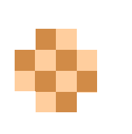 A non-rectangle little board for knight's tour problem.